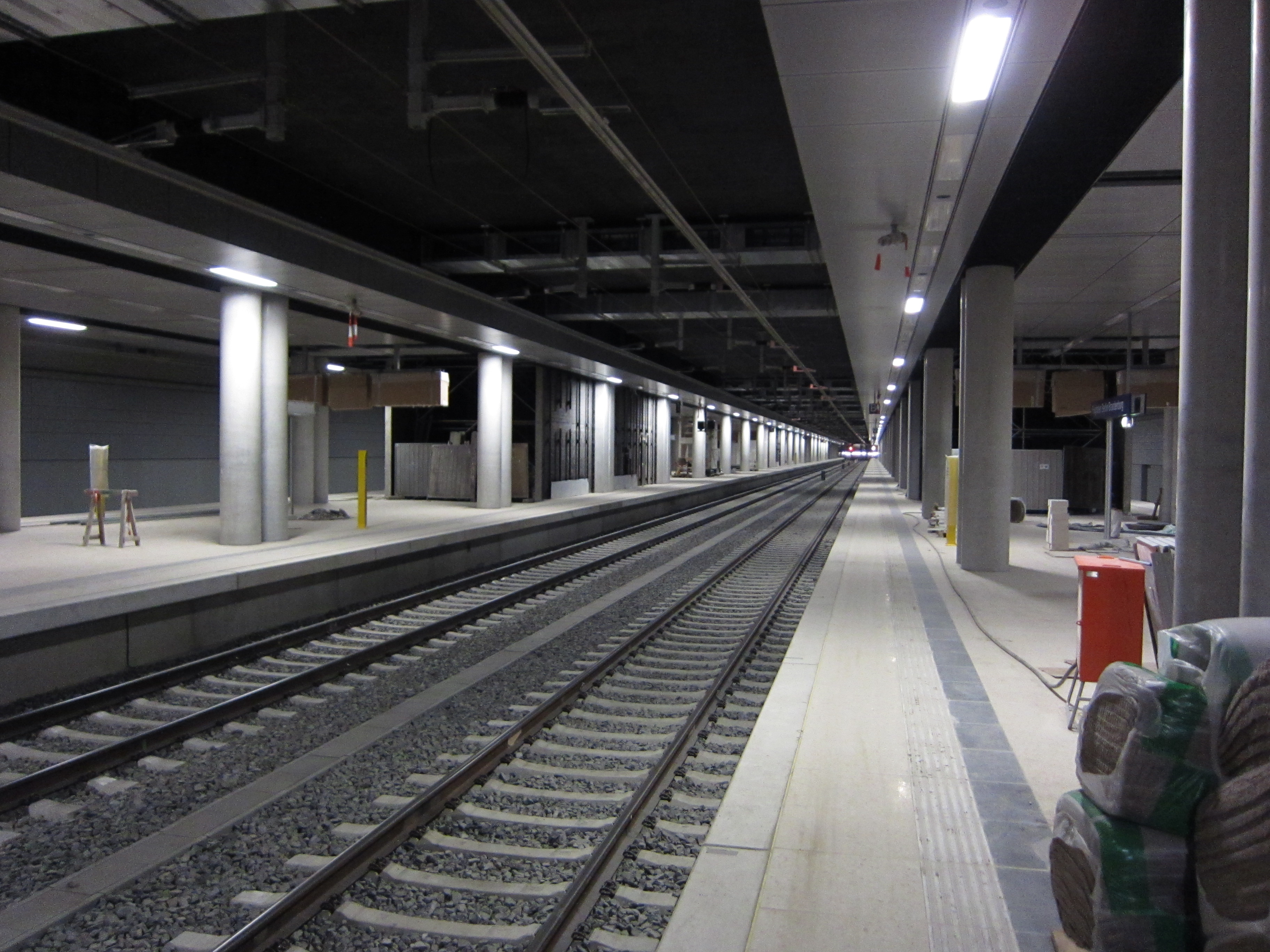 Airport Berlin Brandenburg station with tracks 2 and 3 for regional and long-haul trains. Station under construction.